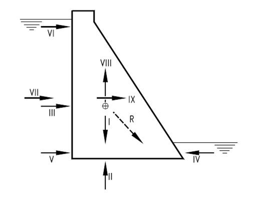 Applied forces on a gravity dam